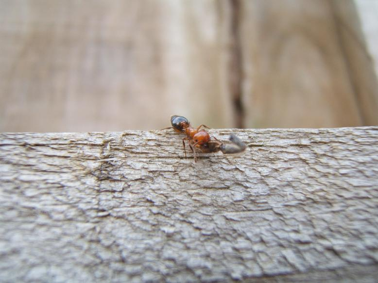 Fire ant carrying food or building supplies back to the nest.